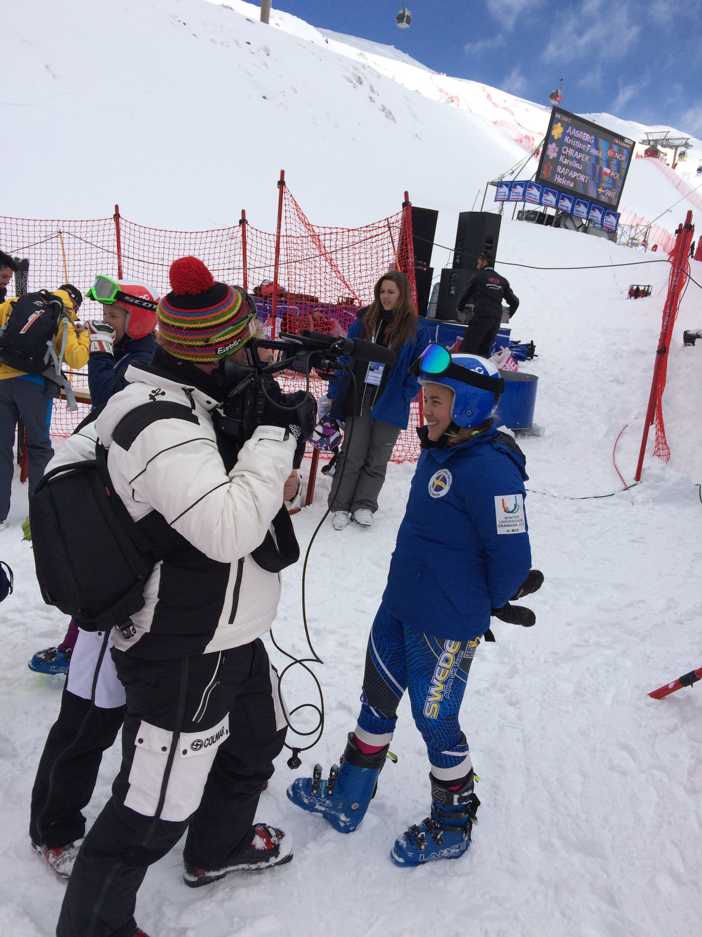 Helena Rapaport intervjuas av Eurosport efter sitt brons i super-G på Universiaden i Granada 2015.